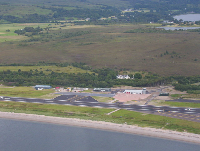 Oban Airport from 600feet